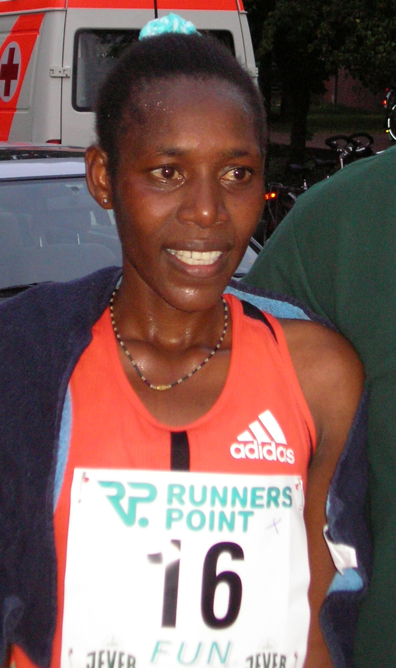 Peninah Arusei 2007 in Schortens